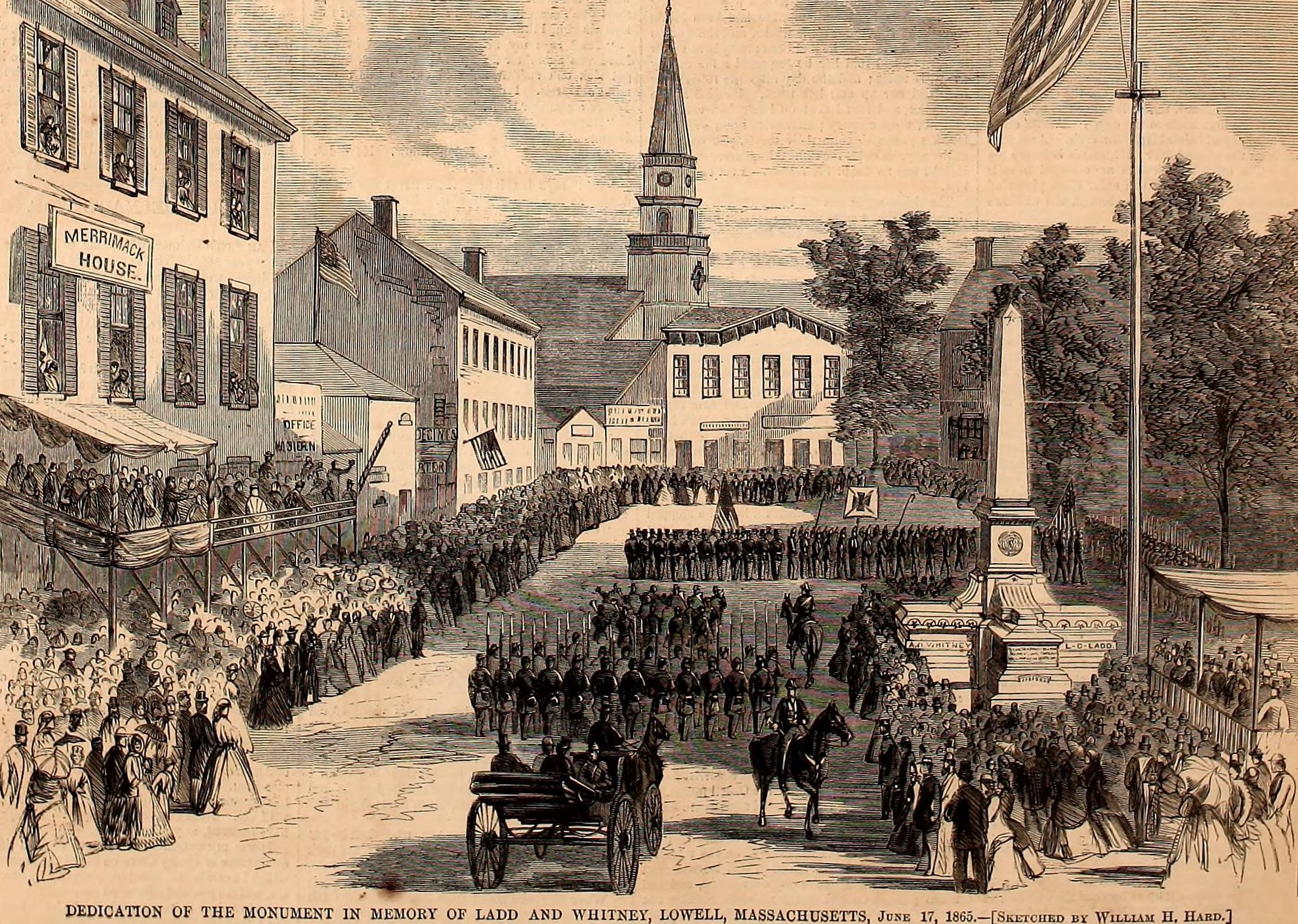 1865 dedication of the monument in Lowell, Massachusetts honoring Privates Luther Ladd and Addison Whitney of the 6th Massachusetts who were killed during the Baltimore Riot on April 19, 1861 and became the first casualties of the Civil War